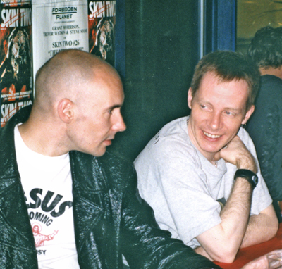 Steve Cook & Grant Morrison